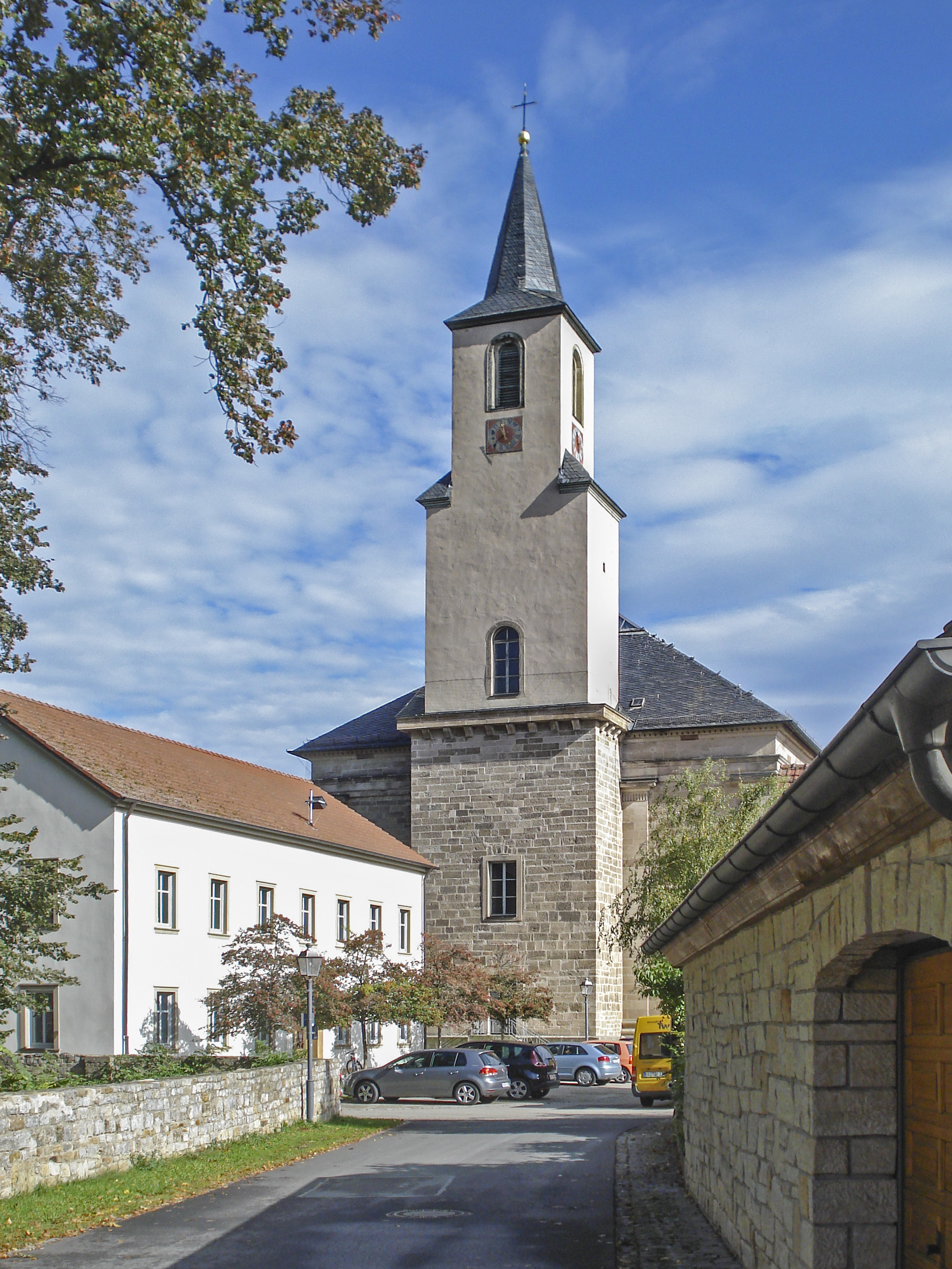 Wonfurt, St.-Andreas-Kirche